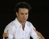 2009 Stars on Ice in Halifax - Marie-France Dubreuil and Patrice Lauzon